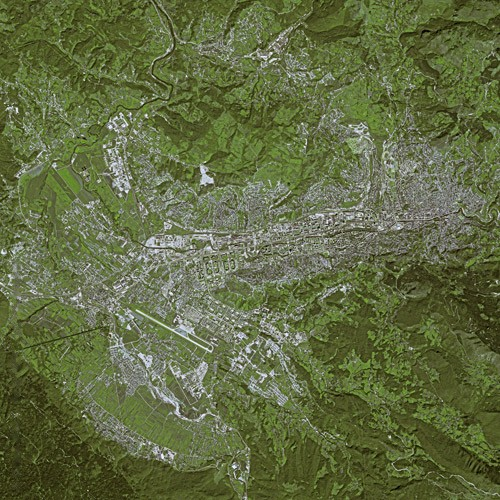 Sarajevo by SPOT Satellite